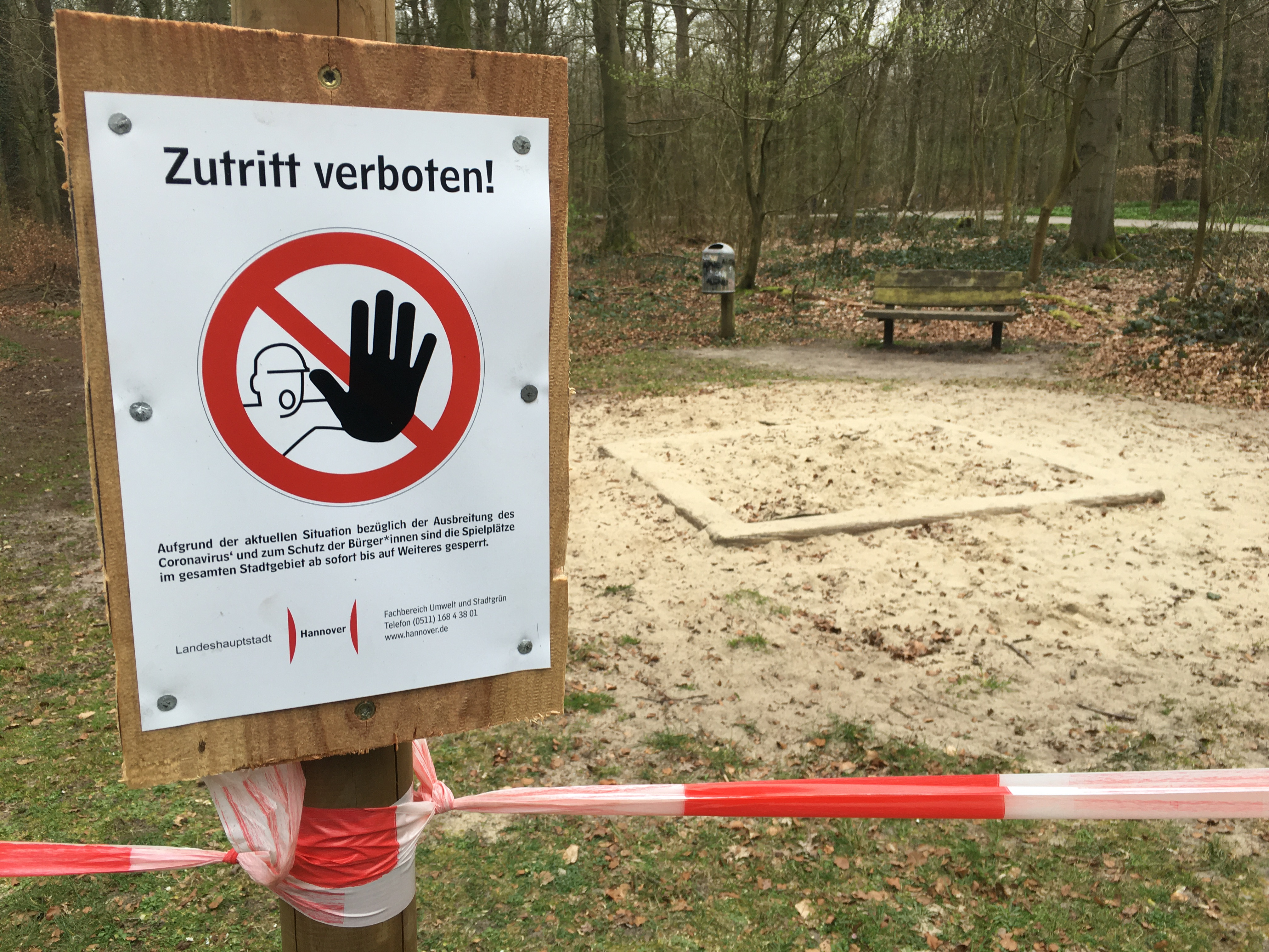 Closed playground in Eilenriede (Hannover, Germany) during COVID-19 pandemic.